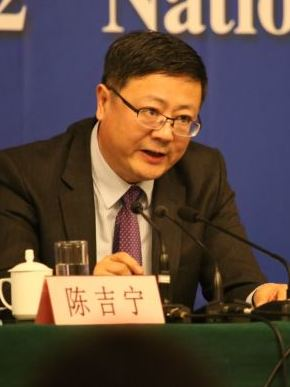 Chen Jining